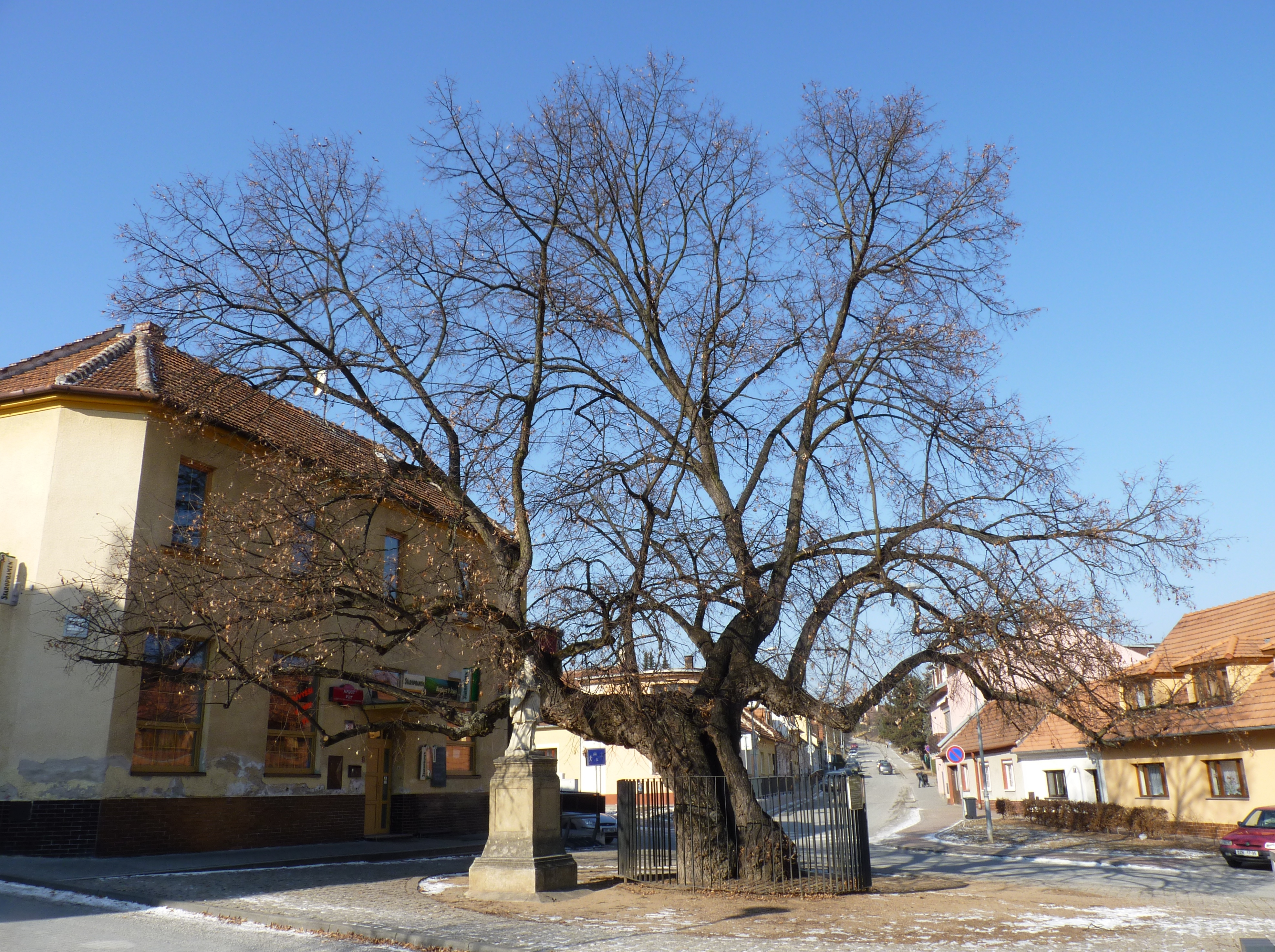 Tilia cordata, the oldest tree in Brno. Brno-Bystrc, Czech Republic